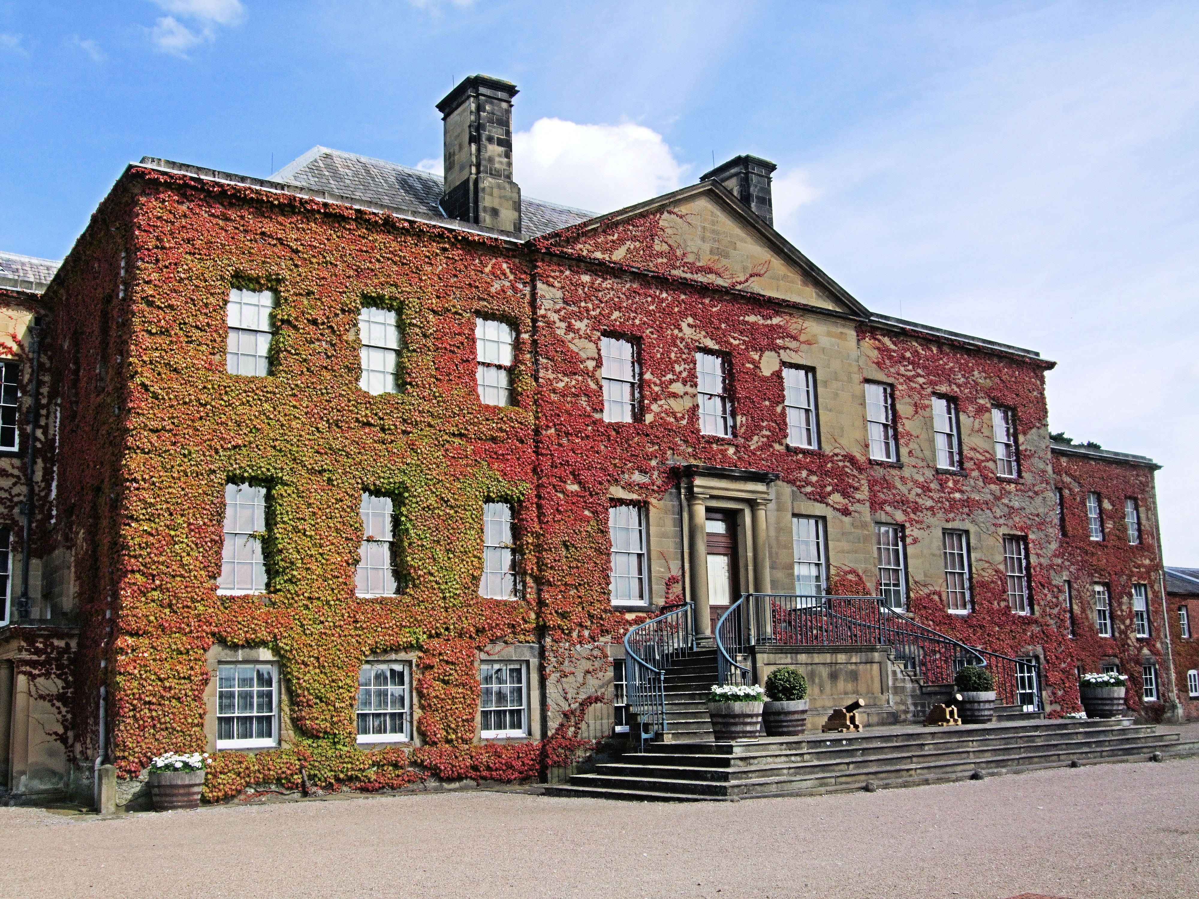 Erddig Hall, A National Trust House - North Wales.